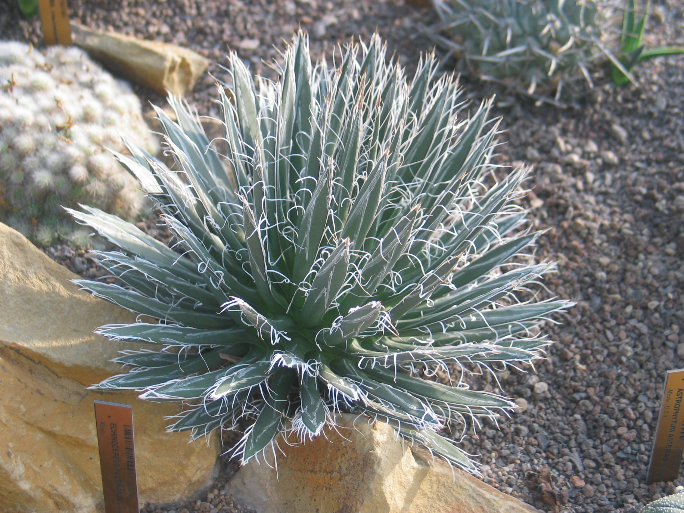 Agave polianthiflora in cultivation at the National Botanic Garden of Belgium, Meise.